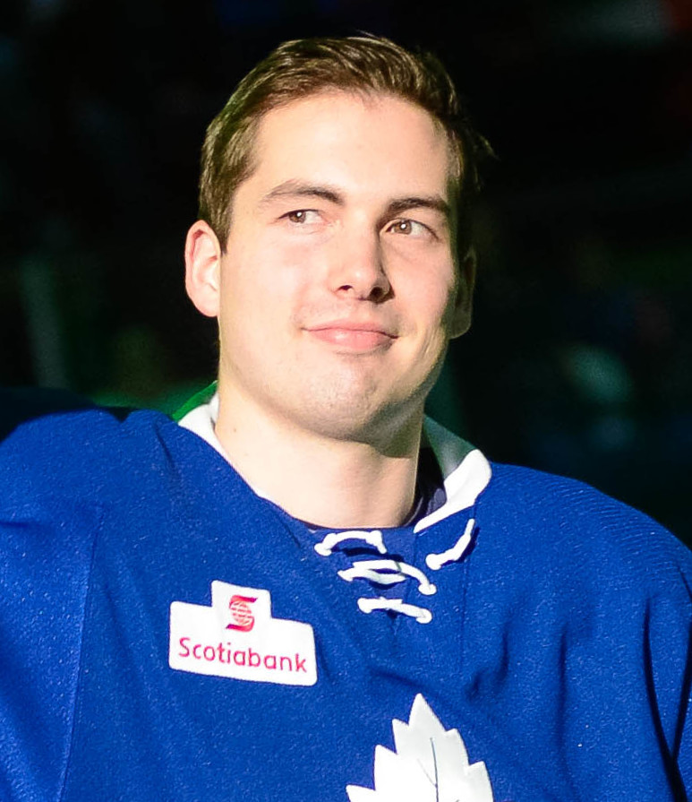 (Lindsay Mogle/ AHL)